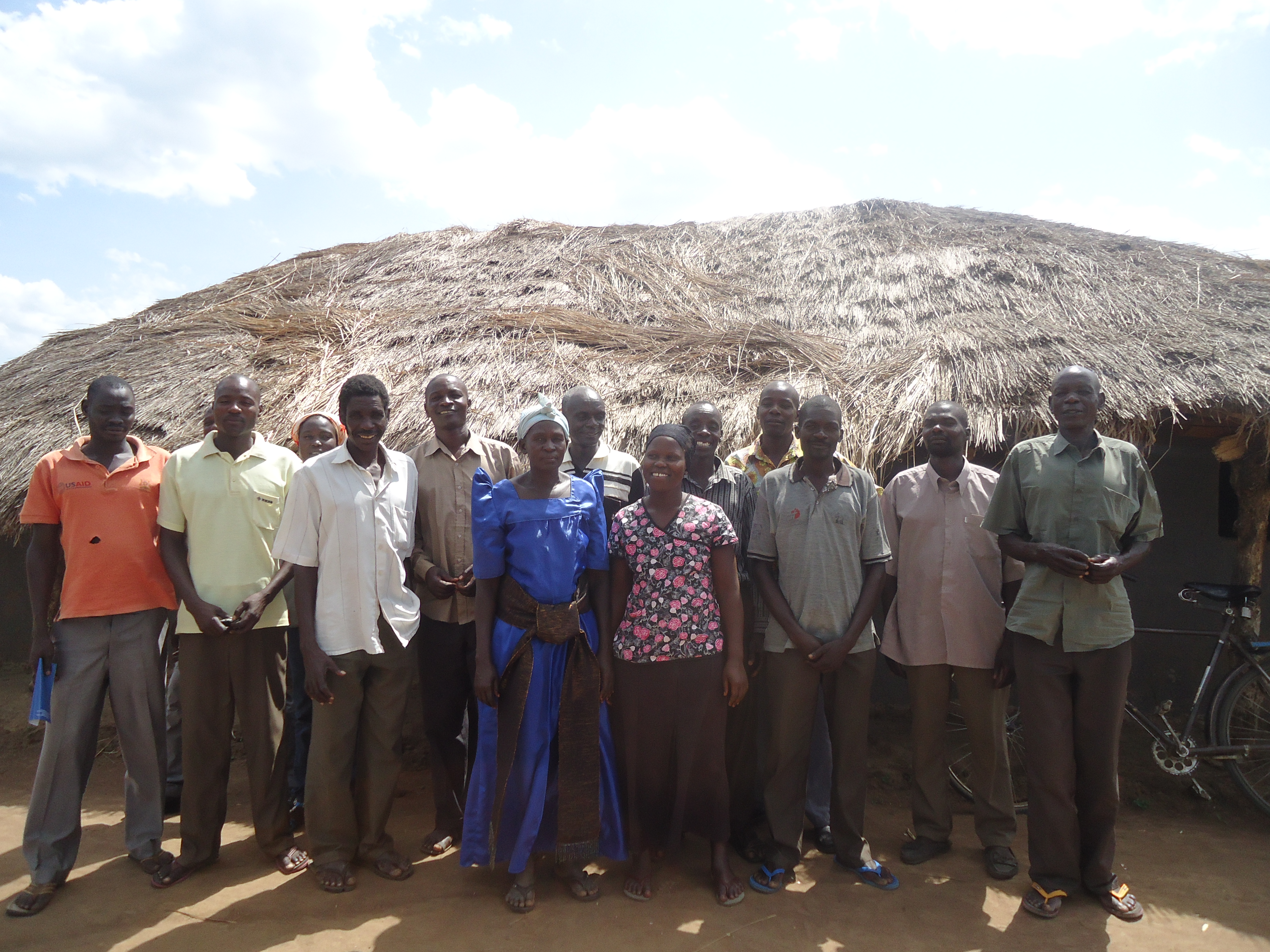 These are people heading communities in Lango region of Uganda, they need help This is an image with the theme "Africa on the Move or Transport" from: Uganda